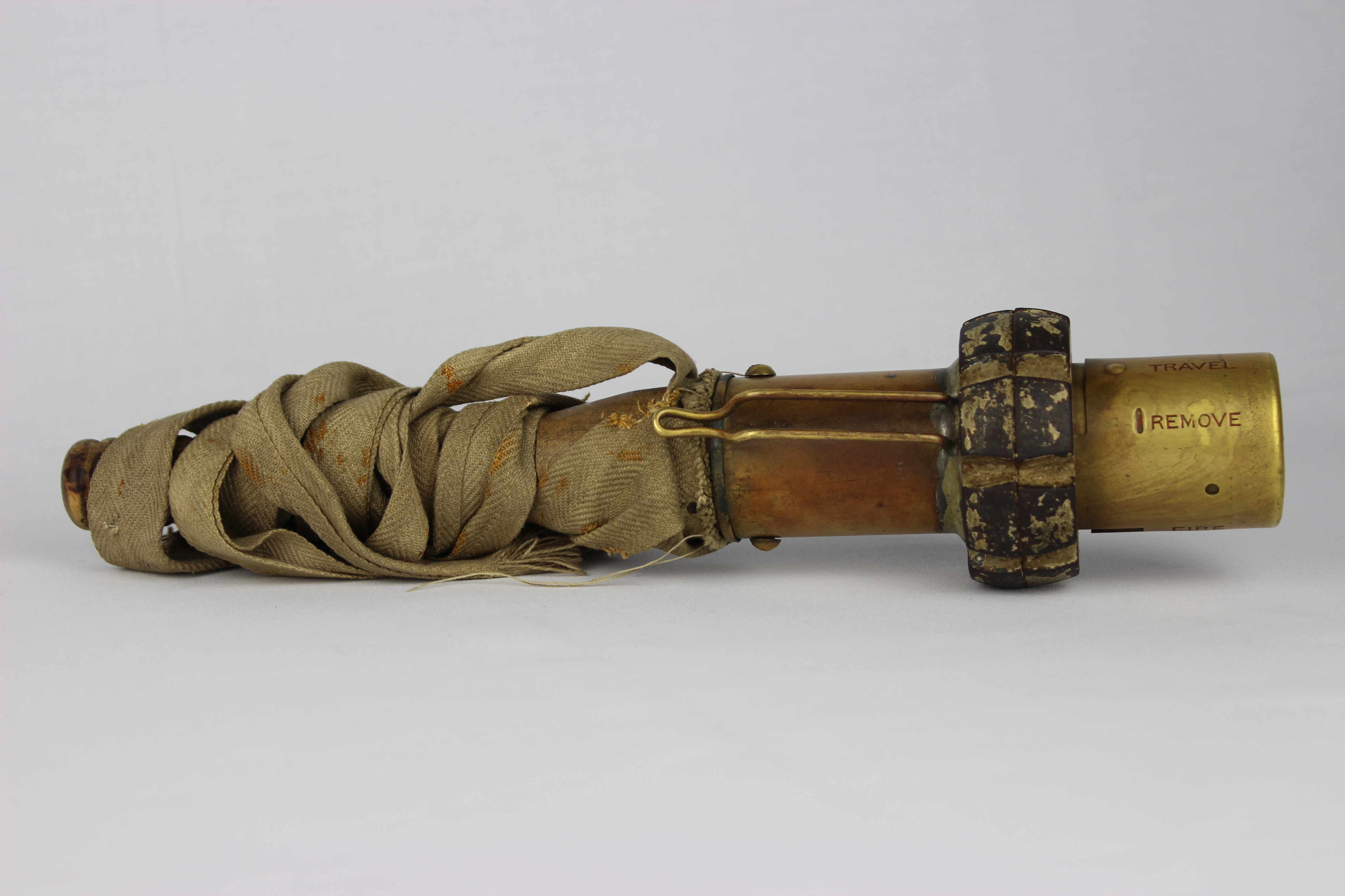 Hand grenade with streamers, wooden handle, brass body and cast iron fragmentation ring. This was the first hand grenade used by the British in World War One. It was thrown using the cane handle for a greater range and detonated on impact. The streamers made sure it landed nose-first. Soldiers had to avoid hitting the fuse on the trench wall during the back-swing of the throw. This would detonate the grenade in the trench.